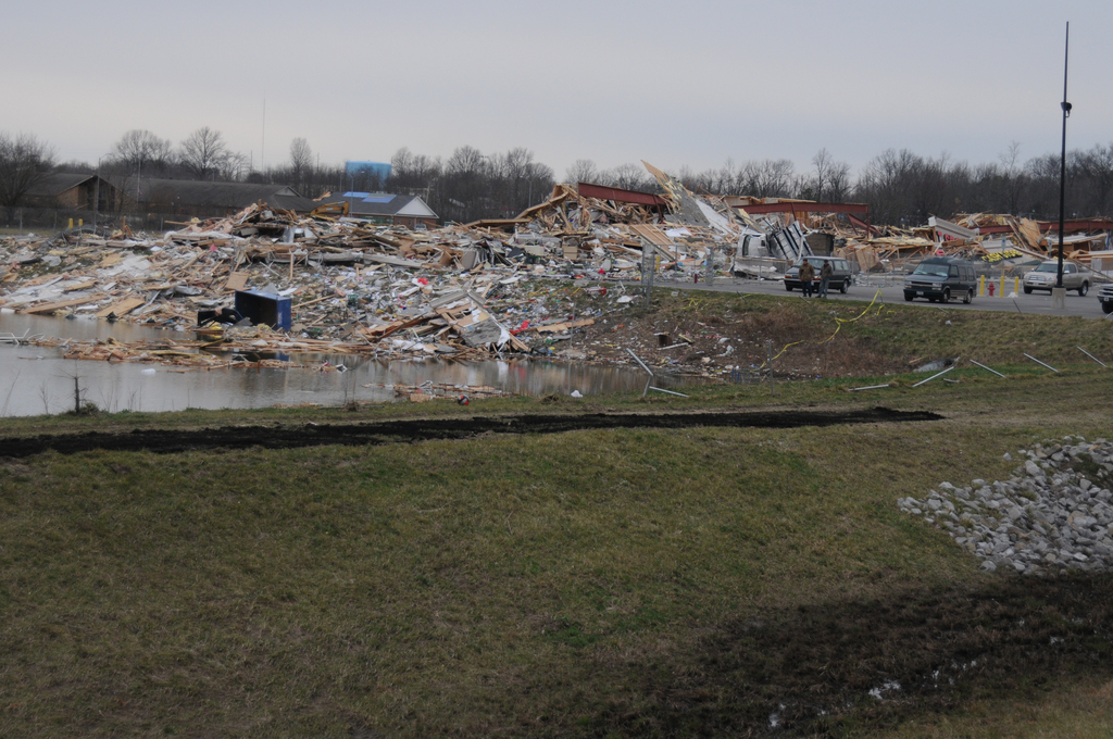 EF4 damage to a strip mall in Harrisburg, Illinois.